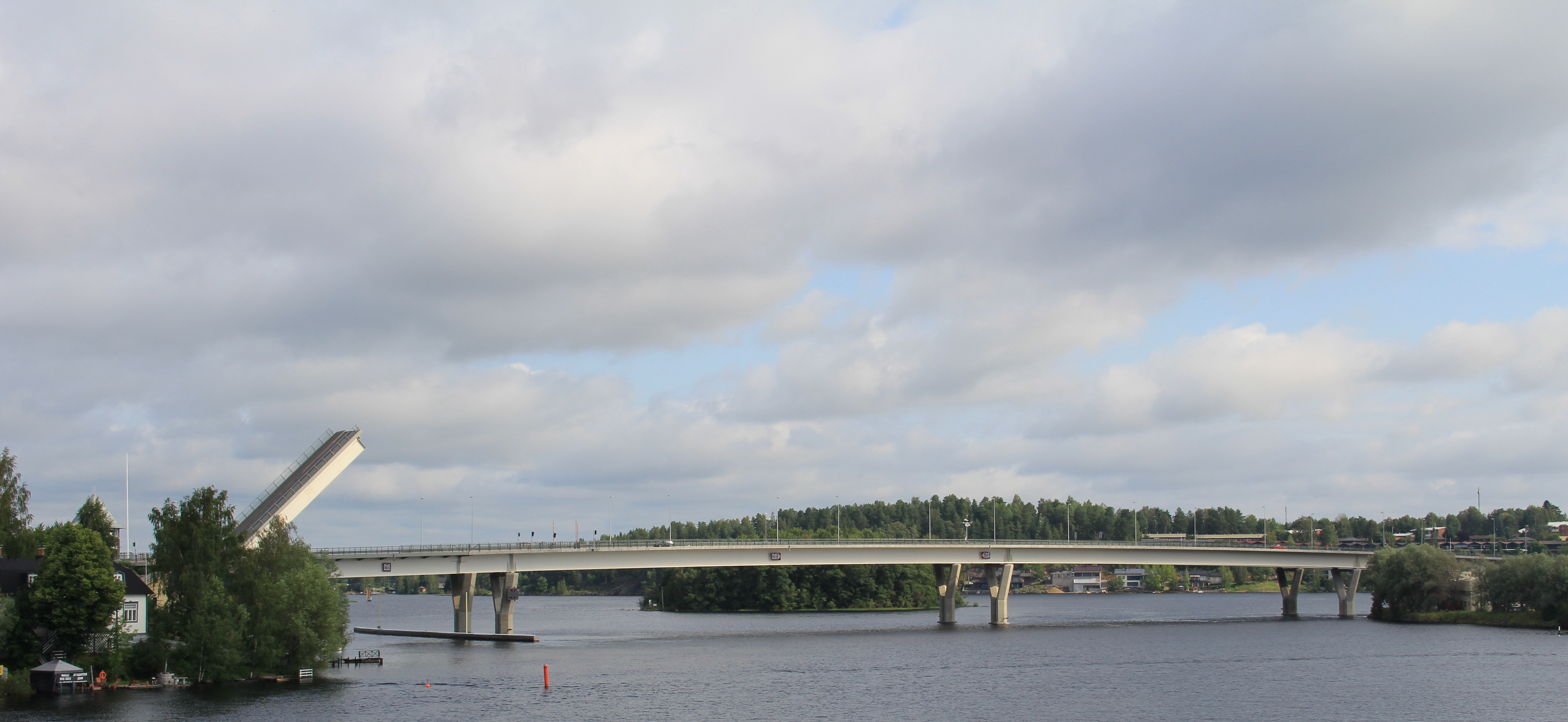 Kyrönsalmi road bridge (two parallel bridges), Savonlinna, Finland. The older bridge (behind) opened due to reparation.